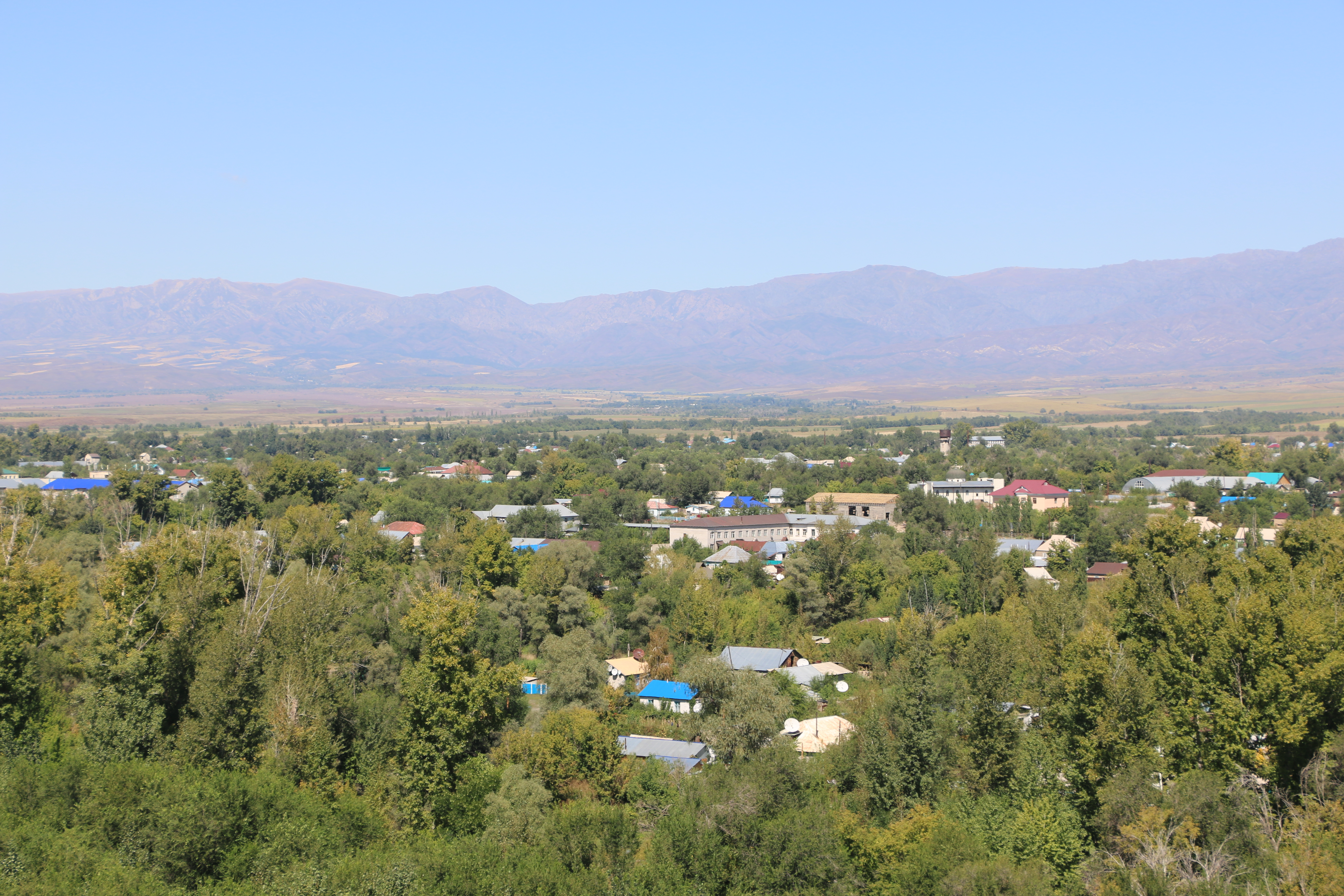 Urzhar